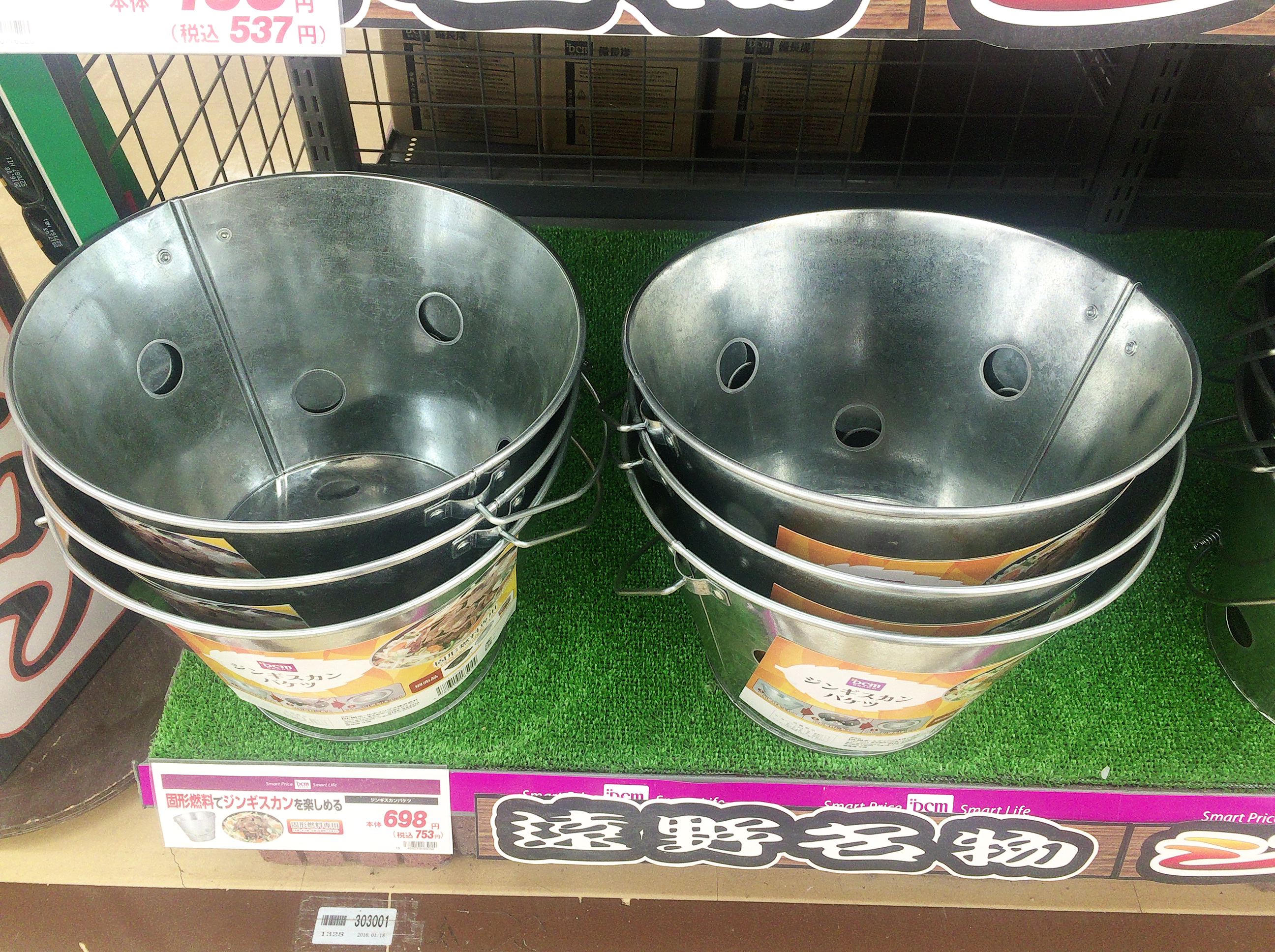 Stacks of jingisukan bucket, a bucket used to prepare jingisukan (grilled mutton) dish, sold at a DIY store in Tono City, Iwate Prefecture, Japan